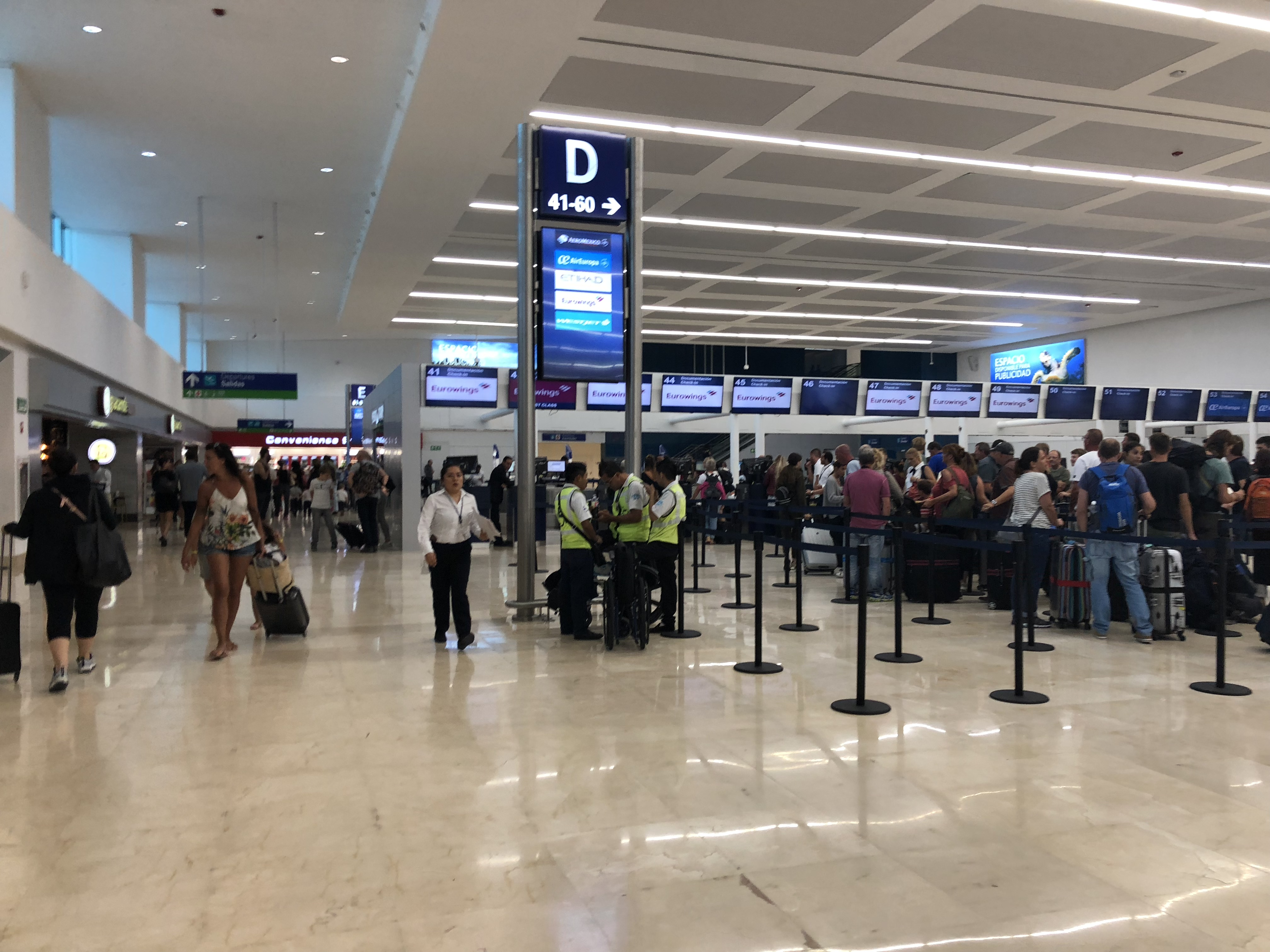 Terminal 4 of Cancún International Airport.